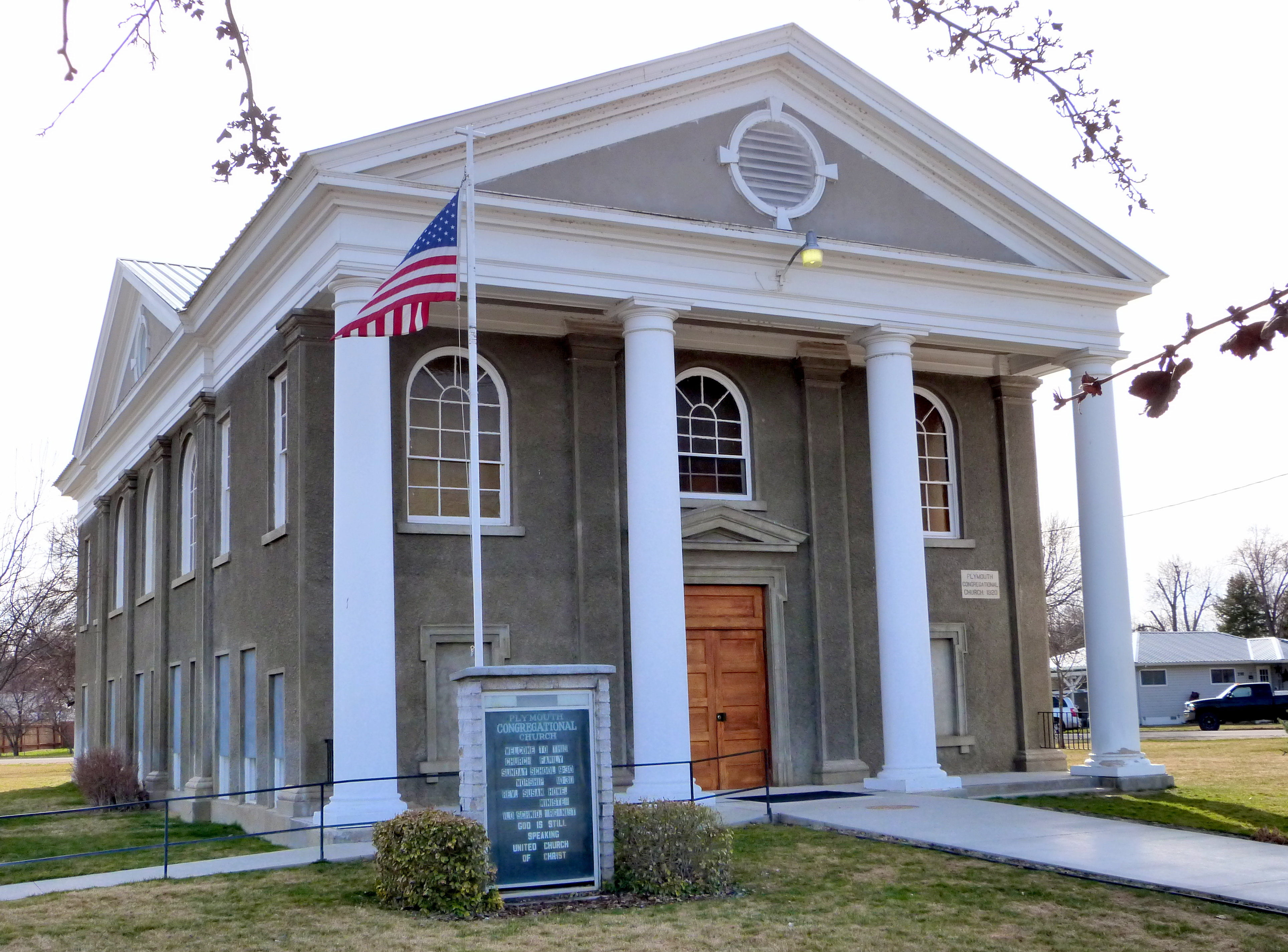 The historic New Plymouth Congregational Church (built 1920), located at 207 Southwest Avenue in New Plymouth, Idaho, United States, is listed on the US National Register of Historic Places.